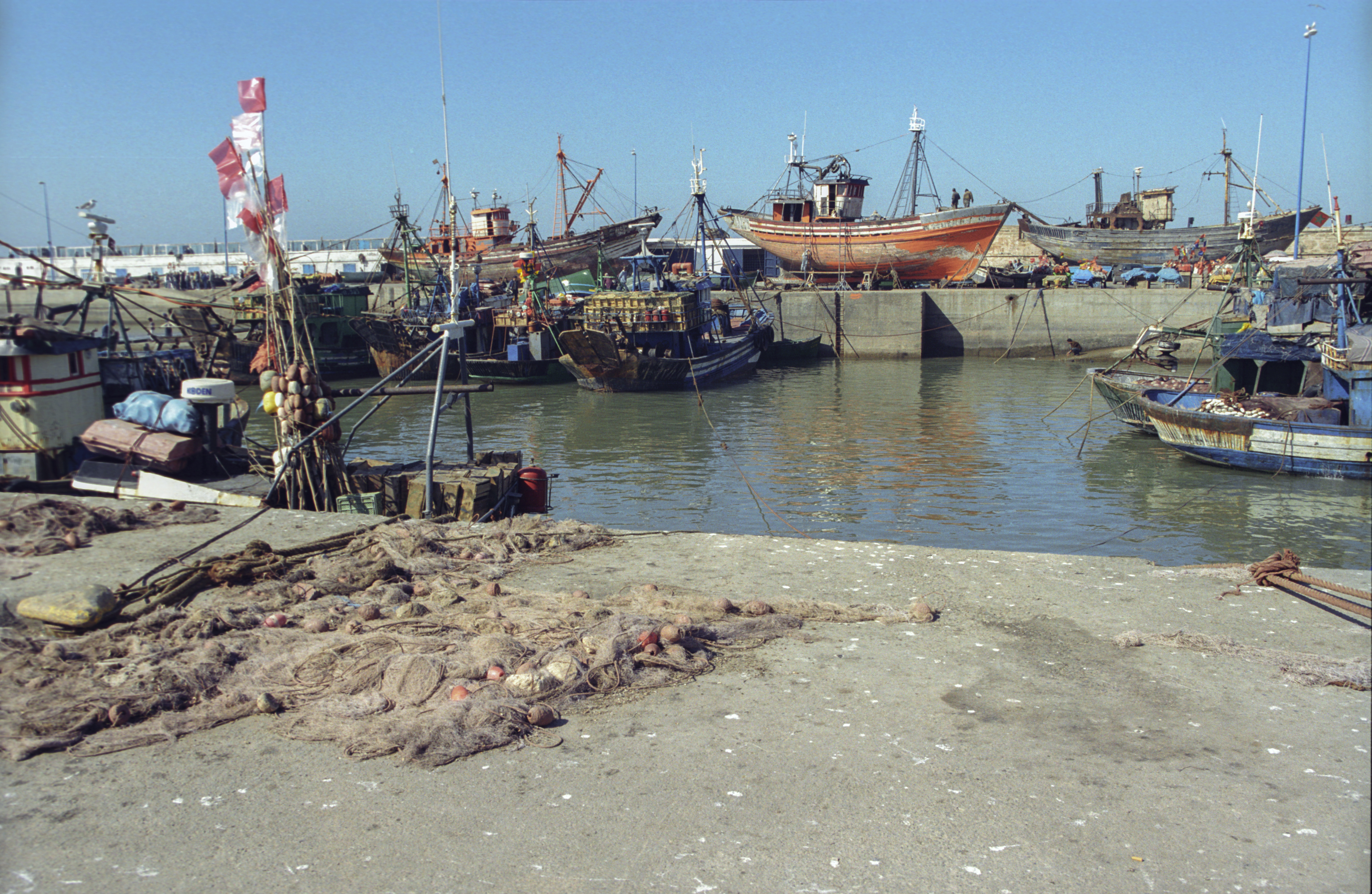 Essaouira, the fishing port